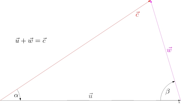 Velocity triangle